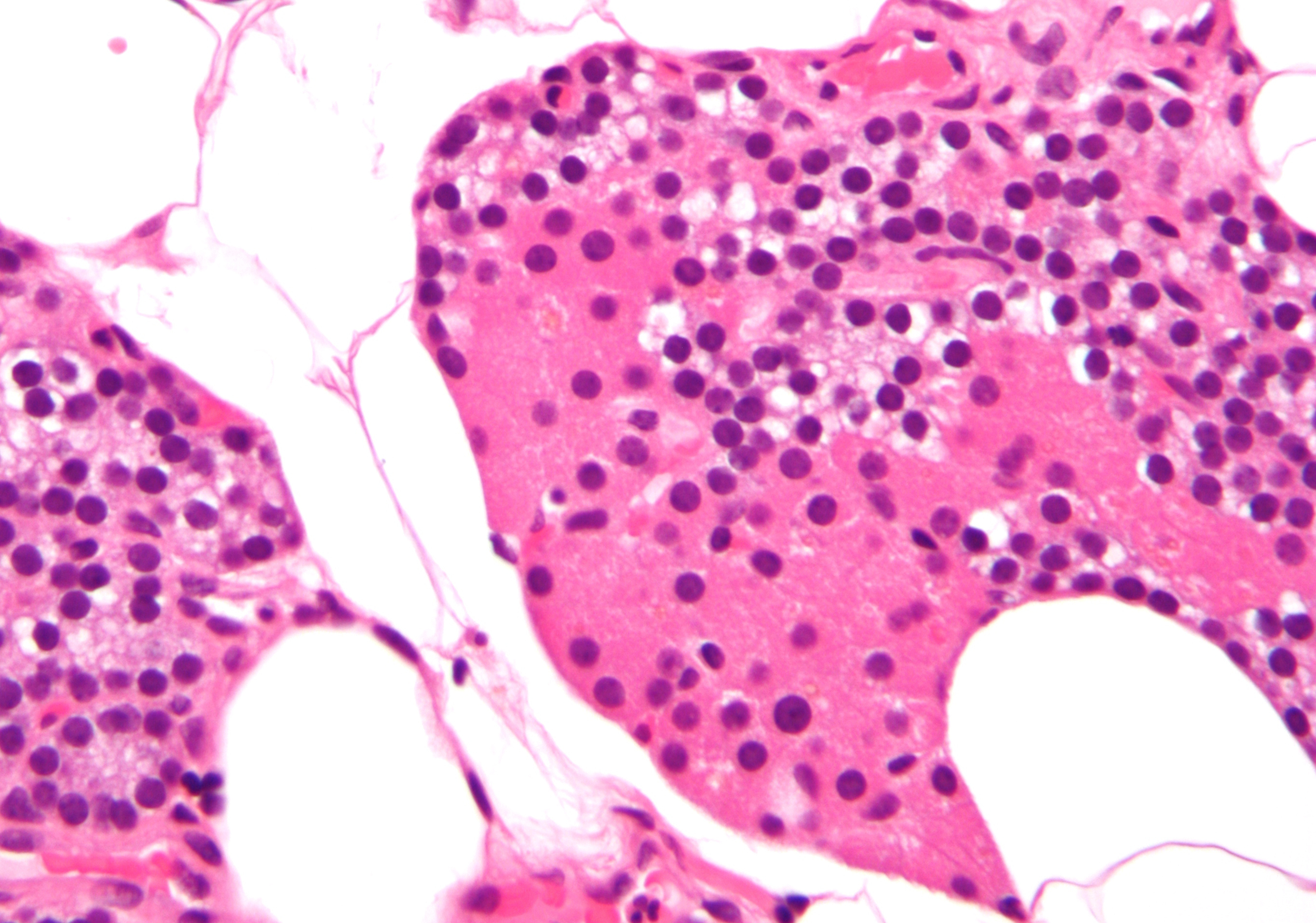 High magnification micrograph of the parathyroid gland. H&E stain. Excised surgically for parathyroid adenoma - not seen on image. Cells of the parathyroid: Parathyroid chief cells - intense hyperchromatic to eosinophilic cytoplasmic staining (see notes), abundant in number, moderate amount of cytoplasm, function - manufacture PTH. Oxyphil cells - moderate/light hyperchromatic to eosinophilic, rare, abundant amount of cytoplasm, function - not known. Adipocytes - seen in older people, increases with age. Notes: Cytoplasmic staining varies considerably on H&E preparations - it may vary from hyperchromatic to clear to eosinophilic. Chief cells tend to stain more intensely than oxyphil cells. Related images Parathyroid gland Low mag. Intermed. mag. High mag. High mag. (cropped) Parathyroid adenoma Low mag. Intermed. mag. High mag.